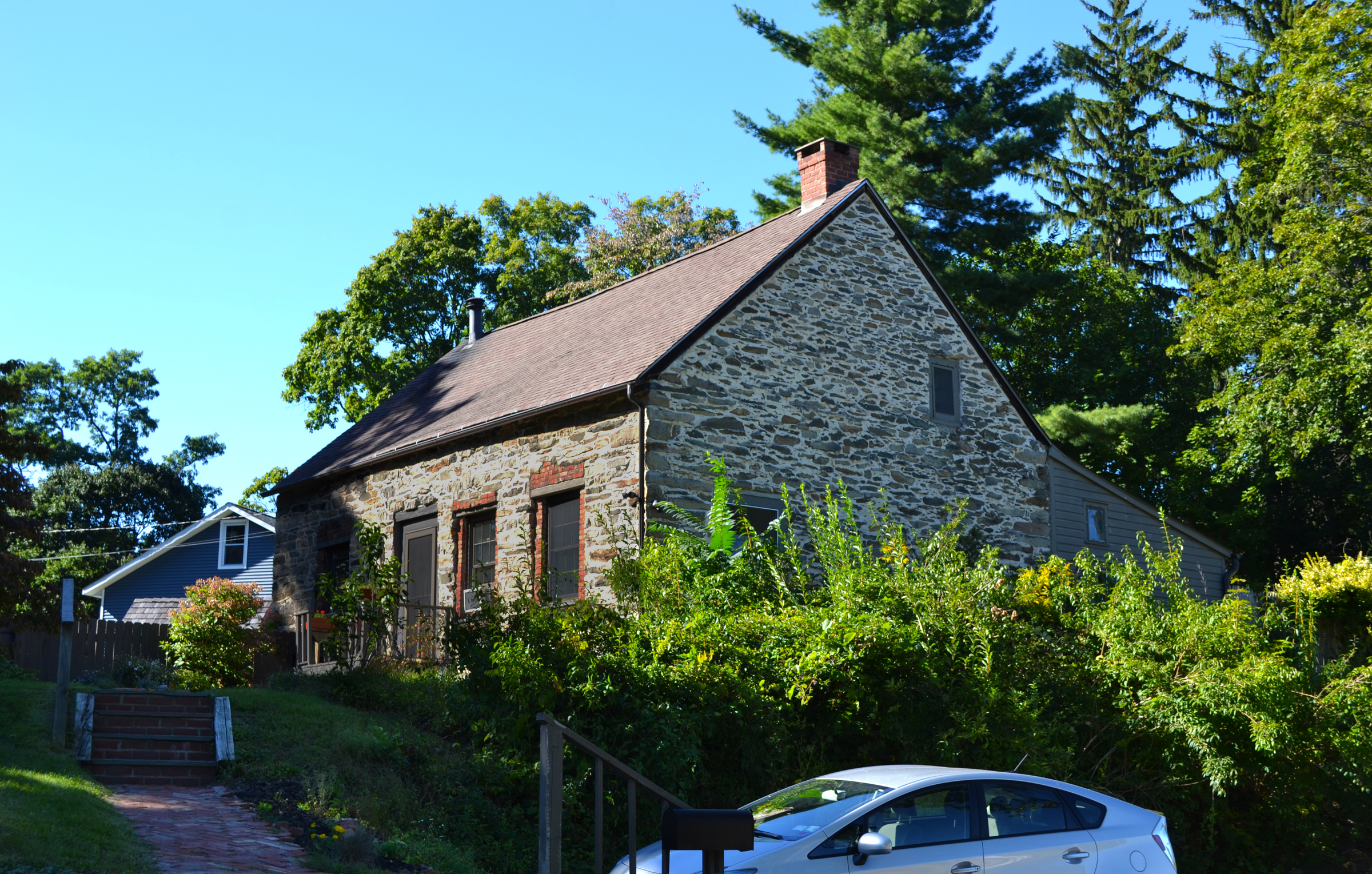 Freer House Freer House, 70 Wilbur Blvd, Poughkeepsie, NY. Southern (front) and Eastern facades